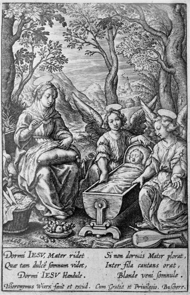 "The Virgin Sewing While Angels Rock Her Son to Sleep", an engraving from by Hieronymus Wierix from Jesu Christi Dei Domini Salvatoris nostra Infantia. The woodcut was the source of S.T. Coleridge's poem "The Virgin's Cradle Hymn" of 1799.